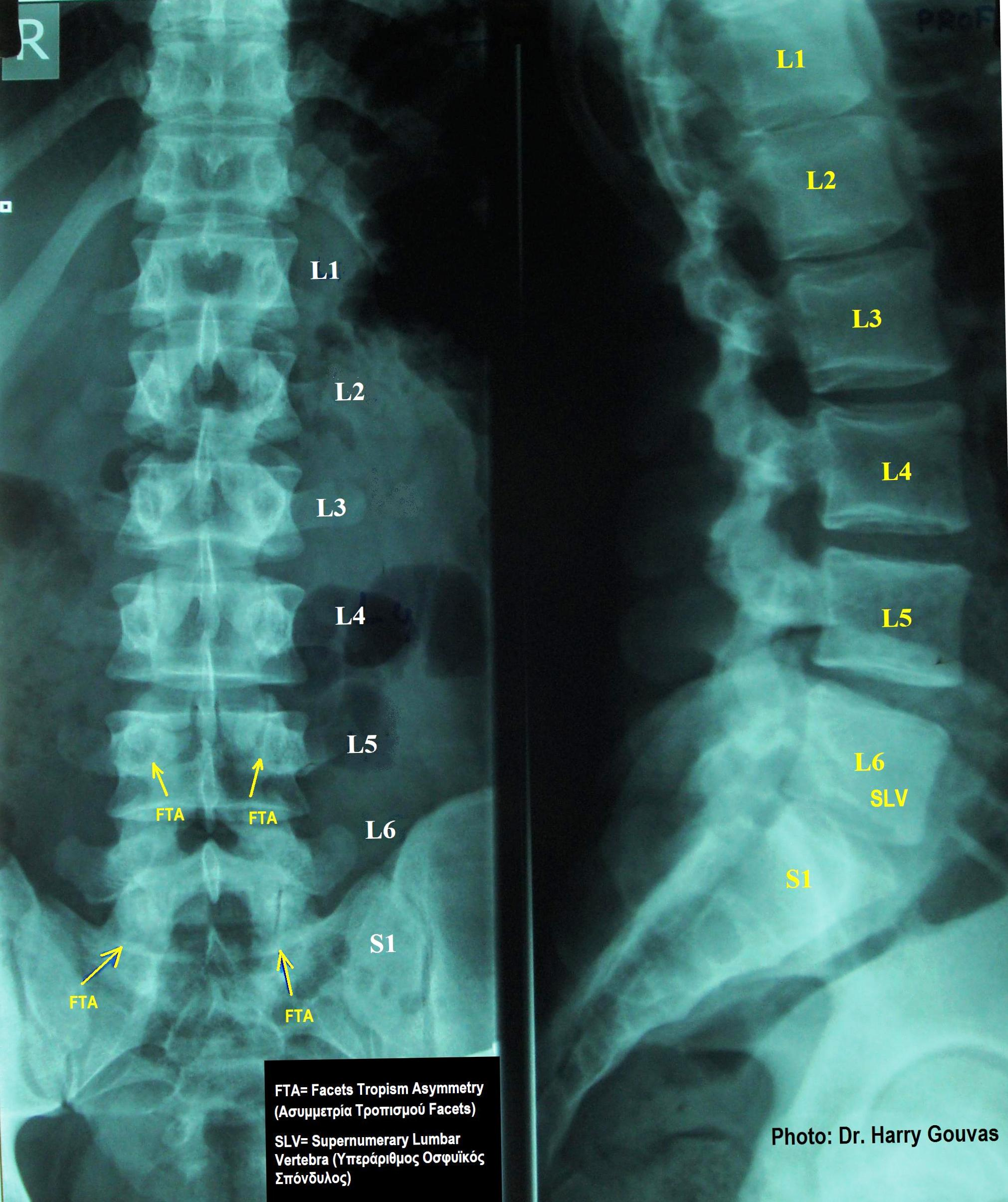 Supernumerary lumbar vertebra